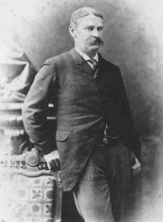 Portrait of Robert S. Peabody, architect